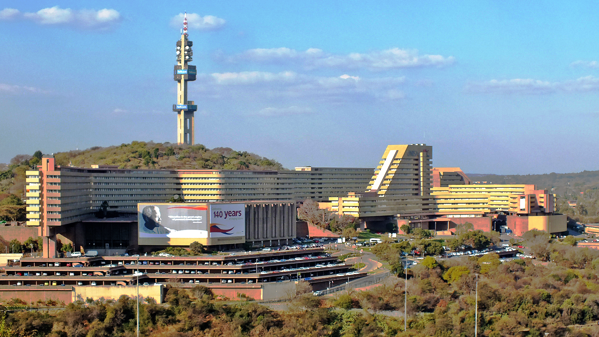 The University of South Africa (UNISA), taken from the Voortrekker Monument.